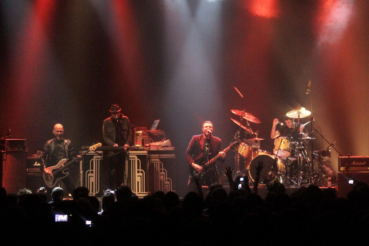 Catupecu Machu